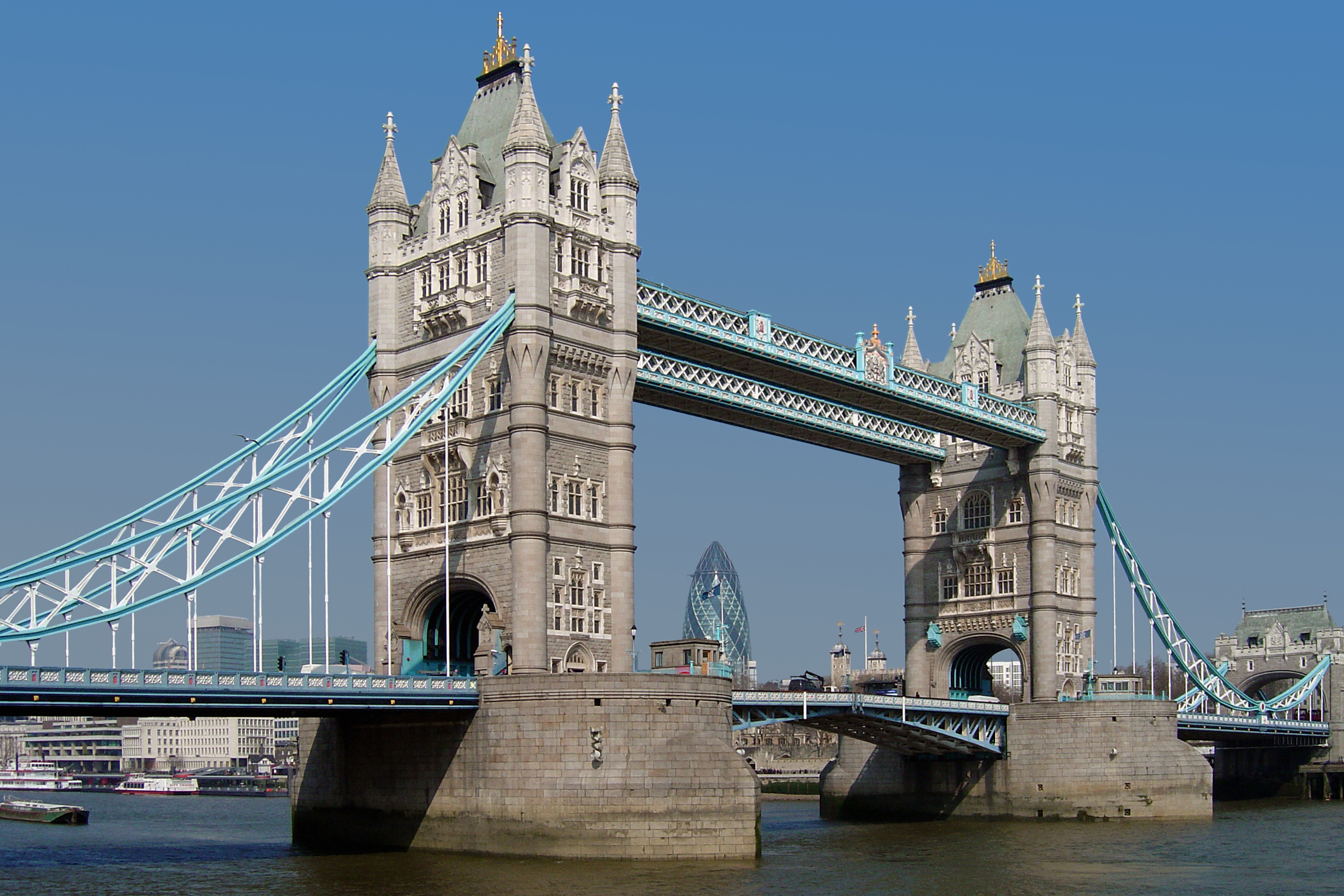 Tower Bridge in London